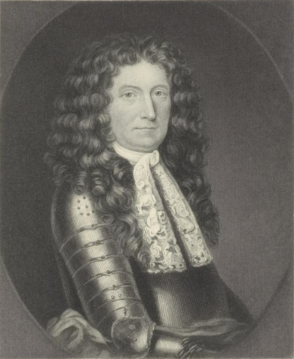 Engraving of colonial governor Sir Edmund Andros.